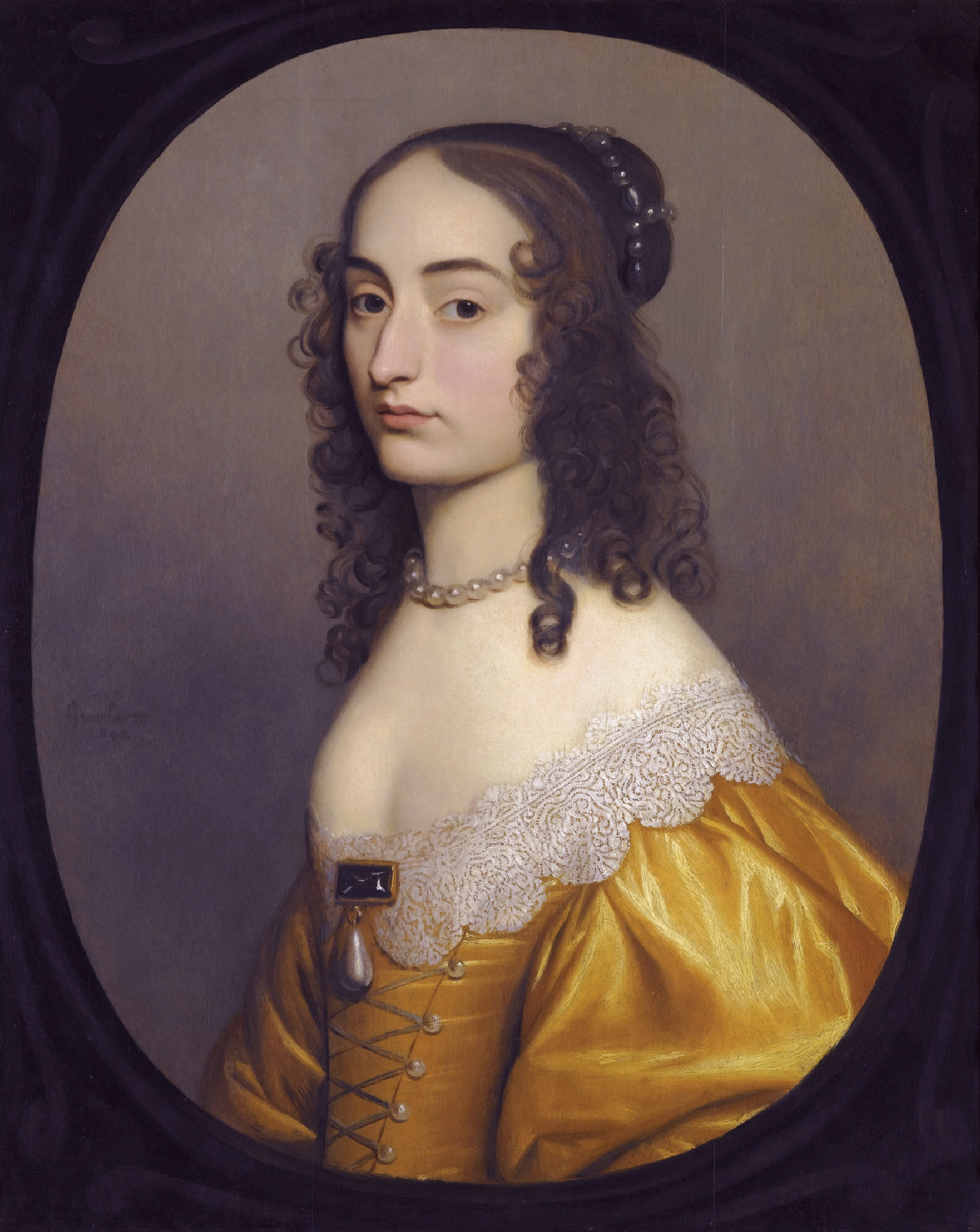 Princess Louise Hollandine (1622-1709)